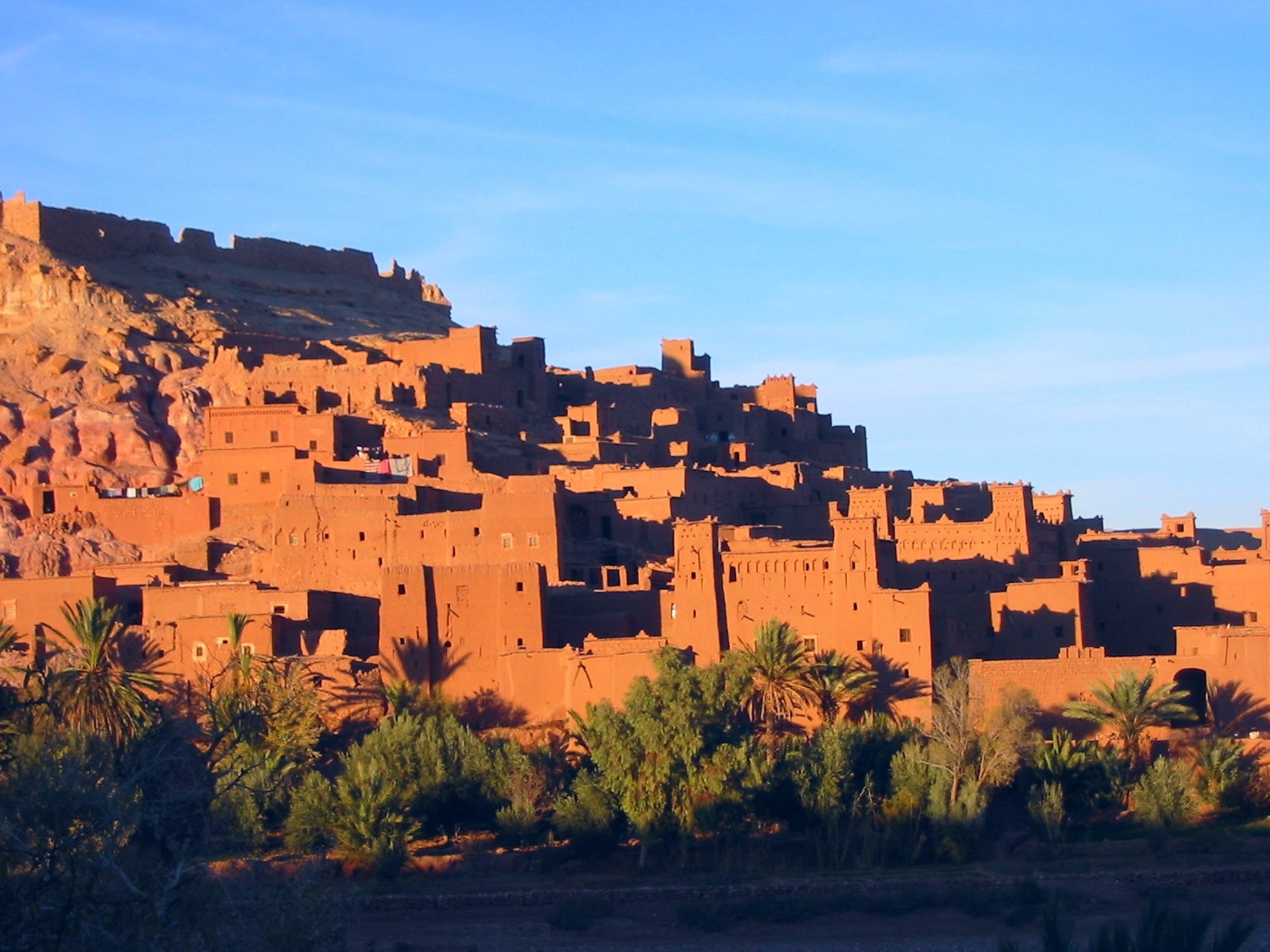 Kasbahs_in_Aït Benhaddou, southern Morocco.